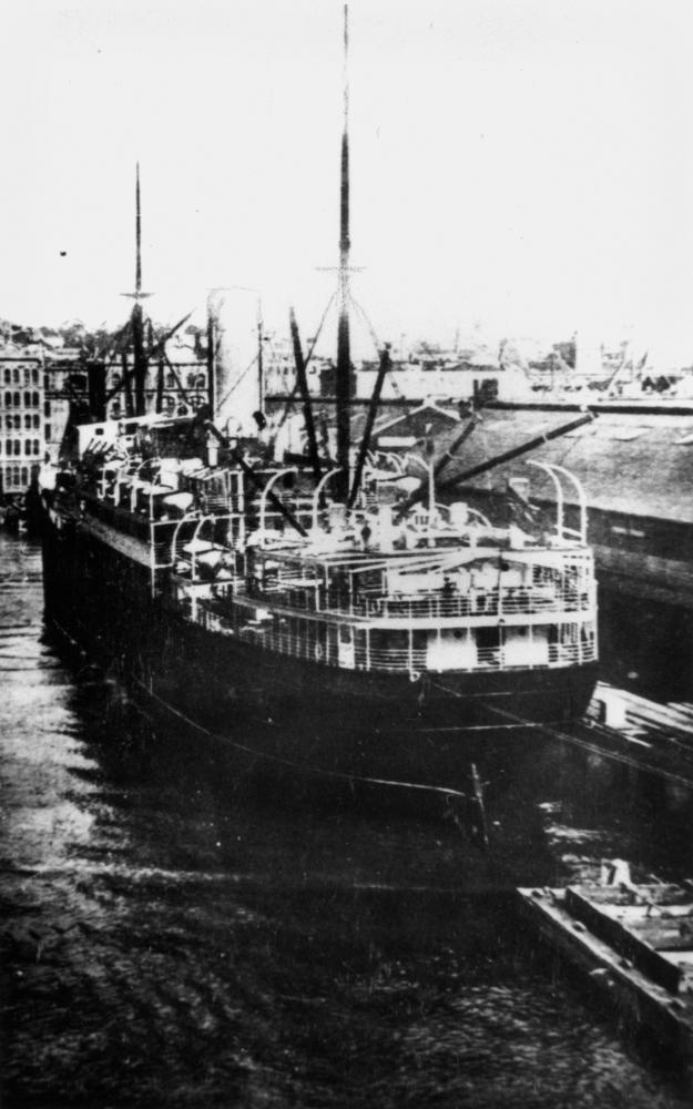 Passenger steamship Rotorua in Auckland Harbour, New Zealand. (From description supplied with photograph.)